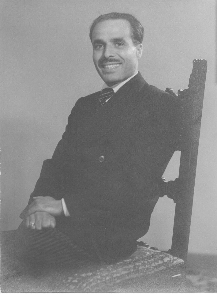 Picture of young Habib Bourguiba in 1930